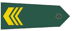 Republic of China Sergeant rank insignia